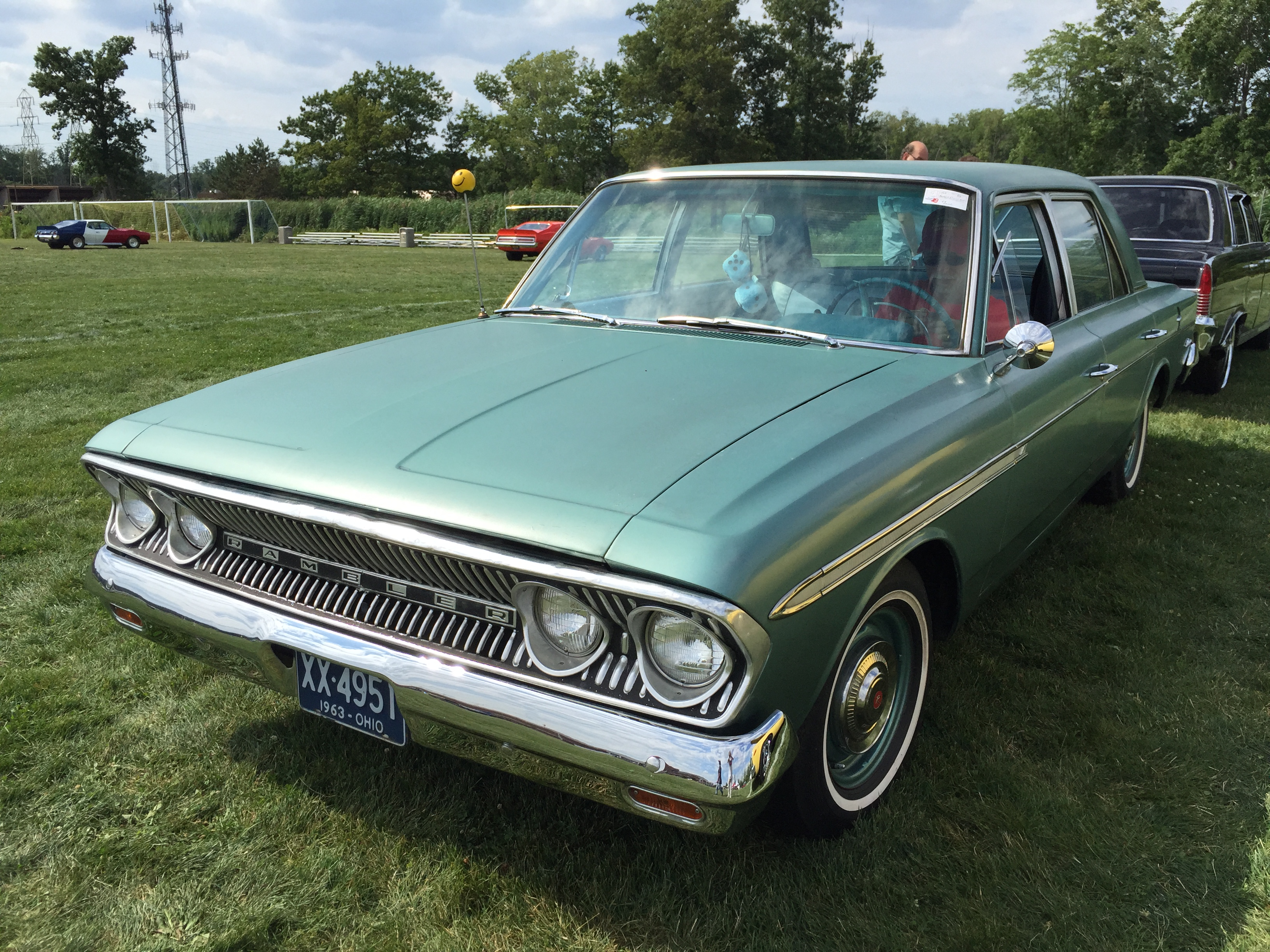 1963 Rambler Classic, a mid-sized car built by American Motors Corporation. This light green (Aegean Aqua - paint code: P47) four-door sedan is in the 660 trim level. The 1963 Rambles were selected as Car of the Year by Motor Trend magazine. Photograph taken during the American Motors Owners Association (AMO) annual convention that was held July 2015 near Cleveland, Ohio.